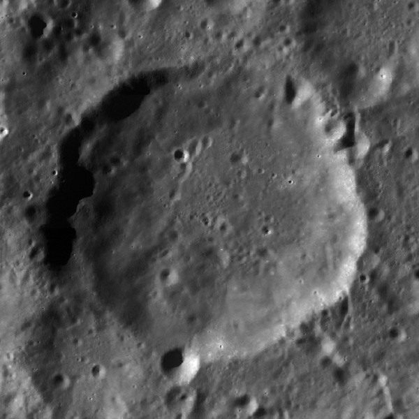 Clark crater, on the far side of the moon. LRO Wide Angle Camera mosaic.